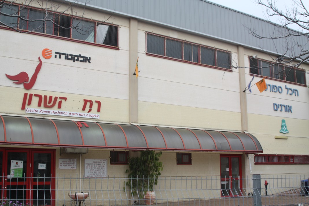 Oranim Arena, Ramat Hasharon